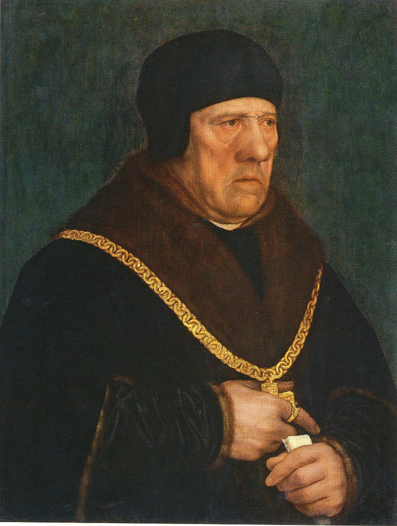 Sir Henry Wyatt (c. 1460/70–1537), was a Privy Councillor and Treasurer of the Chamber of Henry VIII and the father of the poet Sir Thomas Wyatt. Thomas Wyatt described his father's qualities as: "wisdome, gentlenes, sobrenes, desire to do good, frendliness to get the love of manye, and trougth above all the rest".[1] This portrait, once thought to have been painted during Holbein's first visit to England from 1526 to 1528, is now believed to have been painted towards the end of Sir Henry's life, at the same time as Holbein drew the portrait of his son. The sitter appears to have lost his teeth.[2] ↑ John Rowlands, Holbein: The Paintings of Hans Holbein the Younger, Boston: David R. Godine, 1985, ISBN 0879235780, p. 134. ↑ Susan Foister, Holbein in England, London: Tate, 2006, ISBN 1854376454, p. 131.